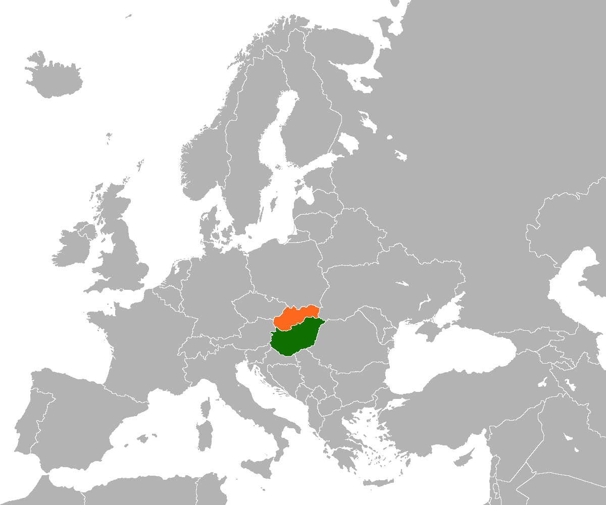 Location of Hungary and Slovakia in Europe